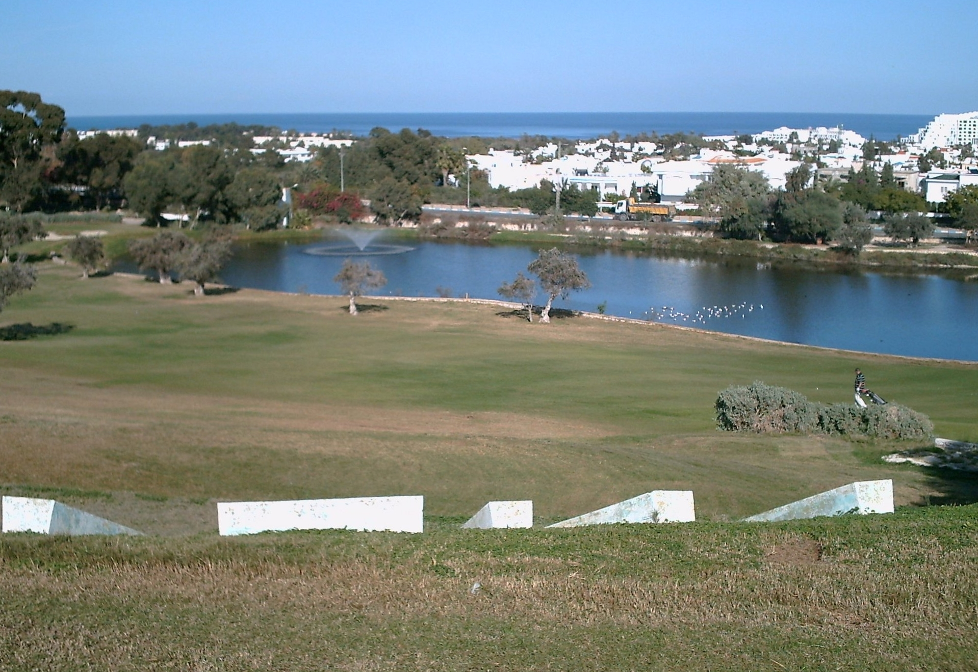 Golf course in Port El-Kantaoui, Tunisia